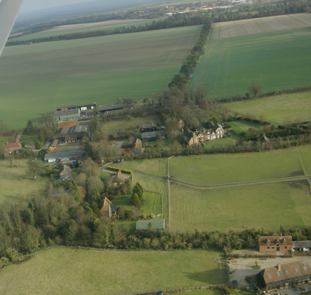 East Ginge, Oxfordshire (formerly Berkshire): aerial view from a microlight